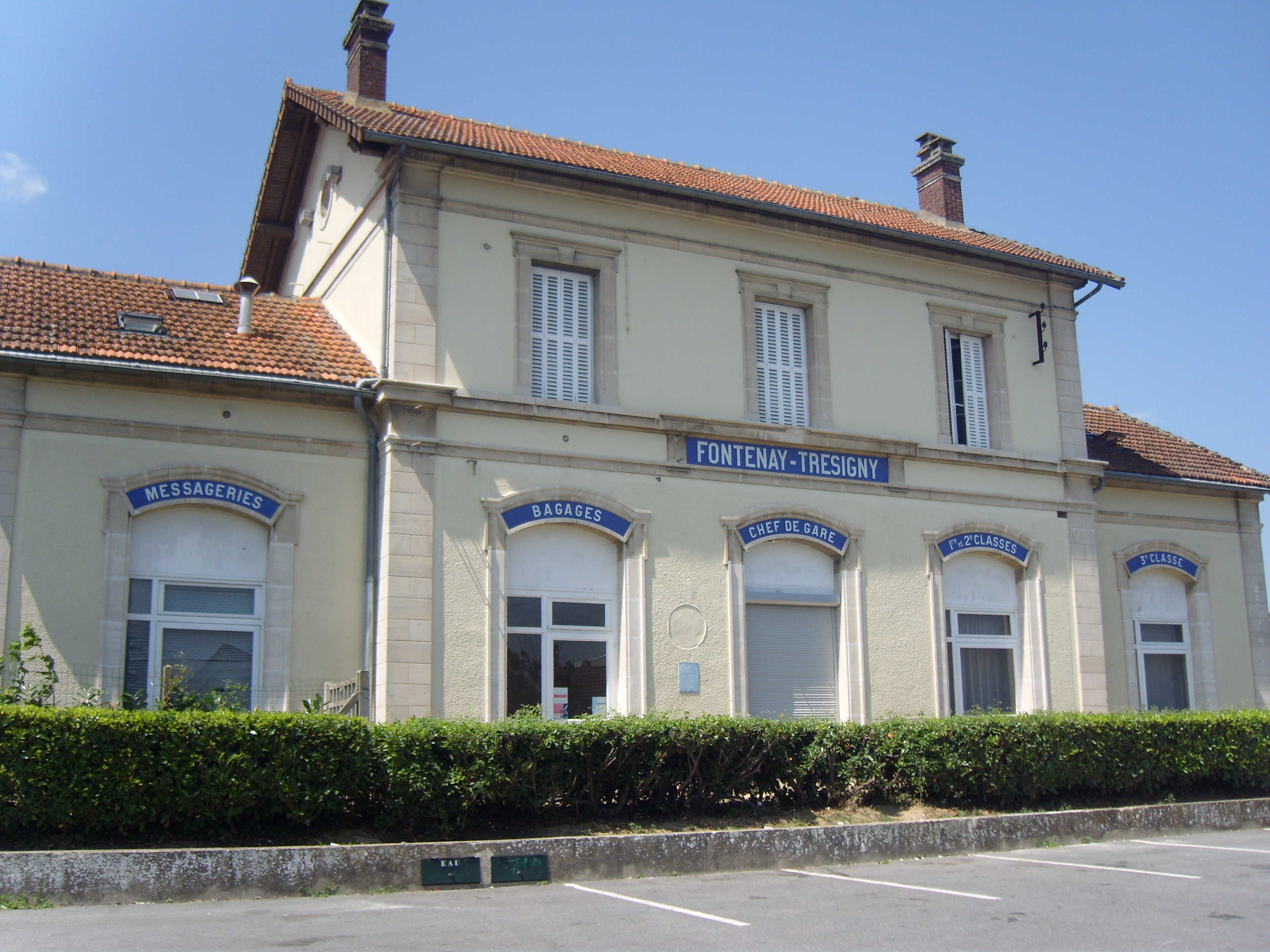 Former Rail Station of Fontenay-Trésigny